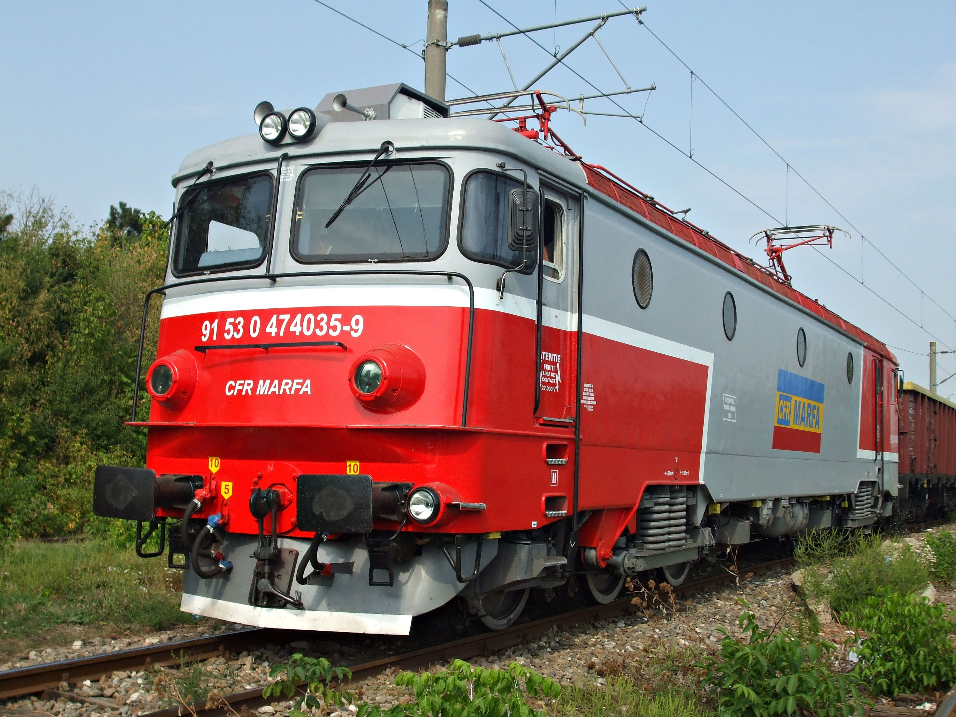 A CFR Marfa class 47 locomotive pulling a freight train.